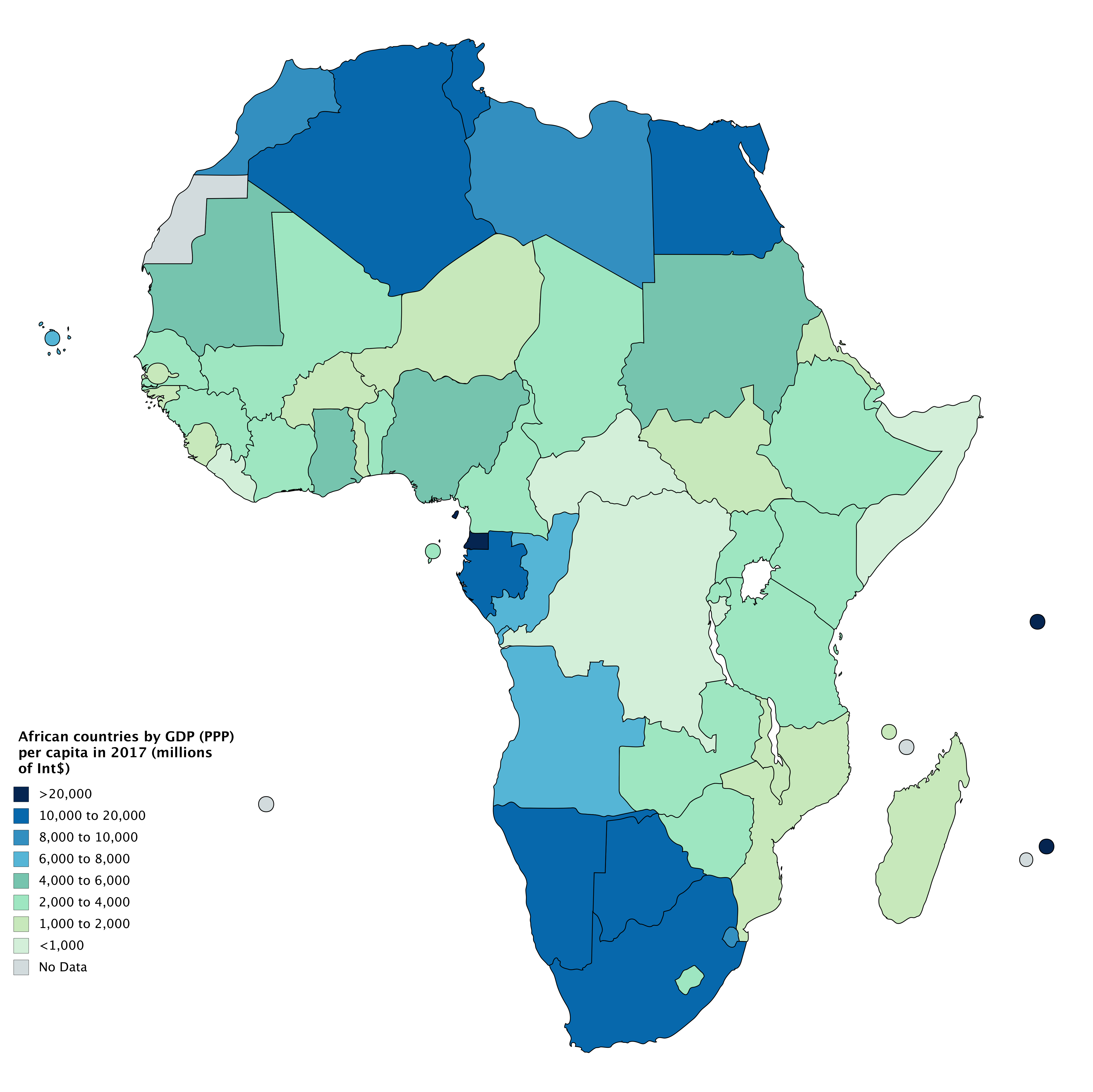 Choropleth map showing African countries by GDP (PPP) per capita in 2017 based on figures from the International Monetary Fund.